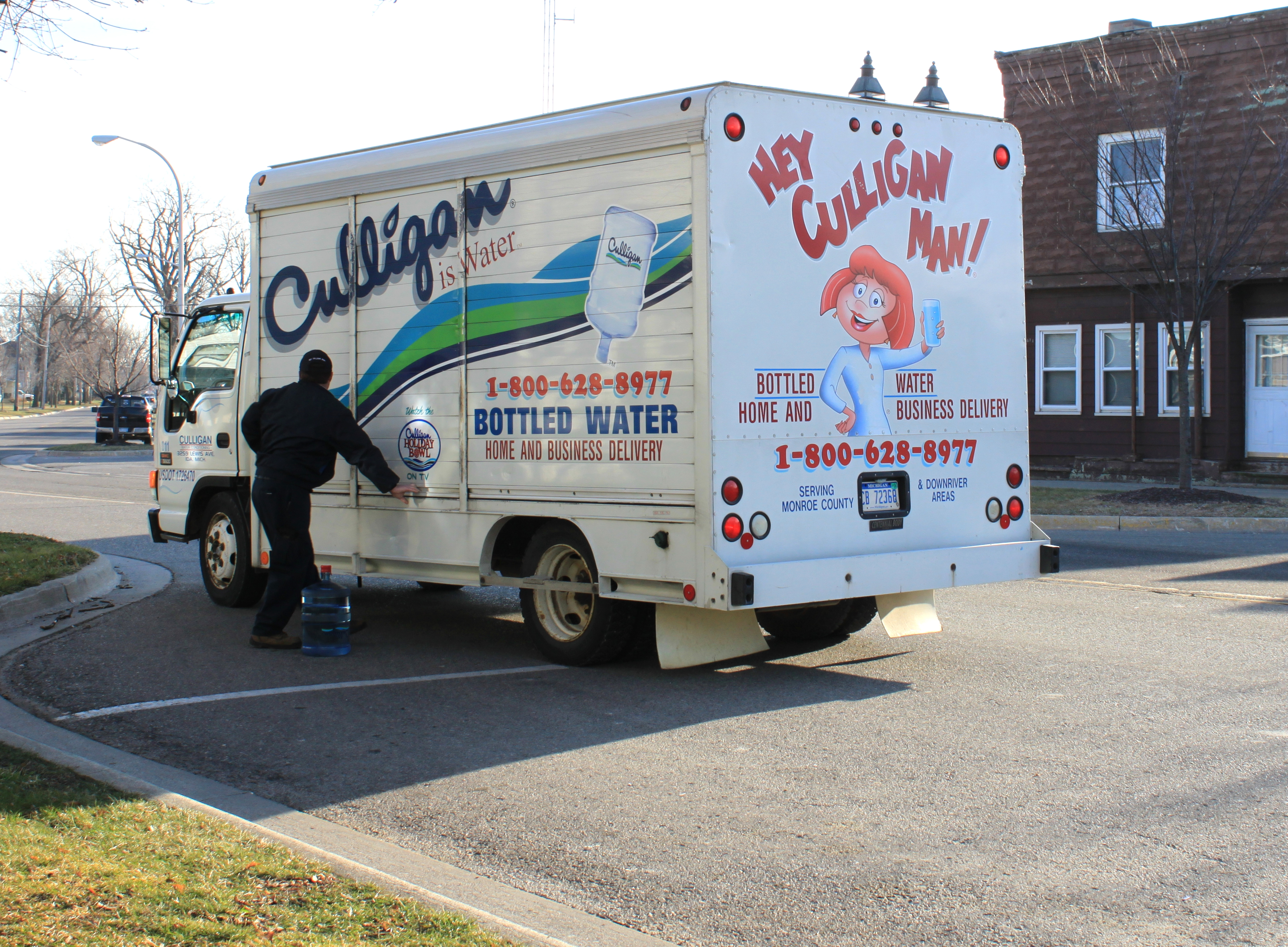 Culligan delivery truck, 139 East Main Street, Dundee Township, Michigan.